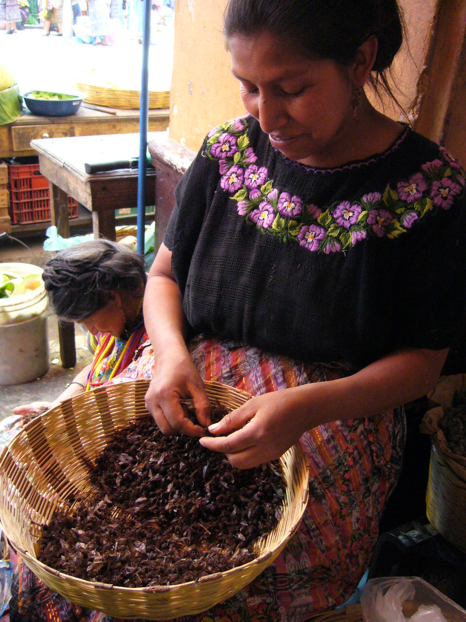 Woman cleaning zompopos de mayo at the market in San Juan Sacatepequez, Guatemala